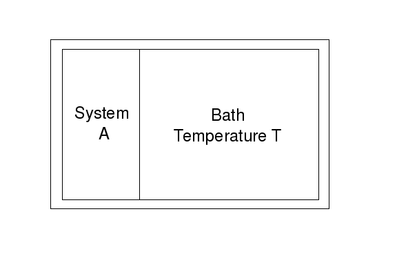 Scheme of a system and a bath separated by a diathermal wall.